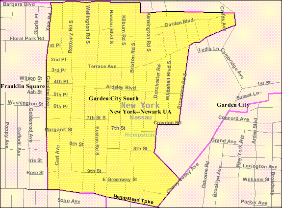 U.S. Census 2000 reference map for Garden City South, New York